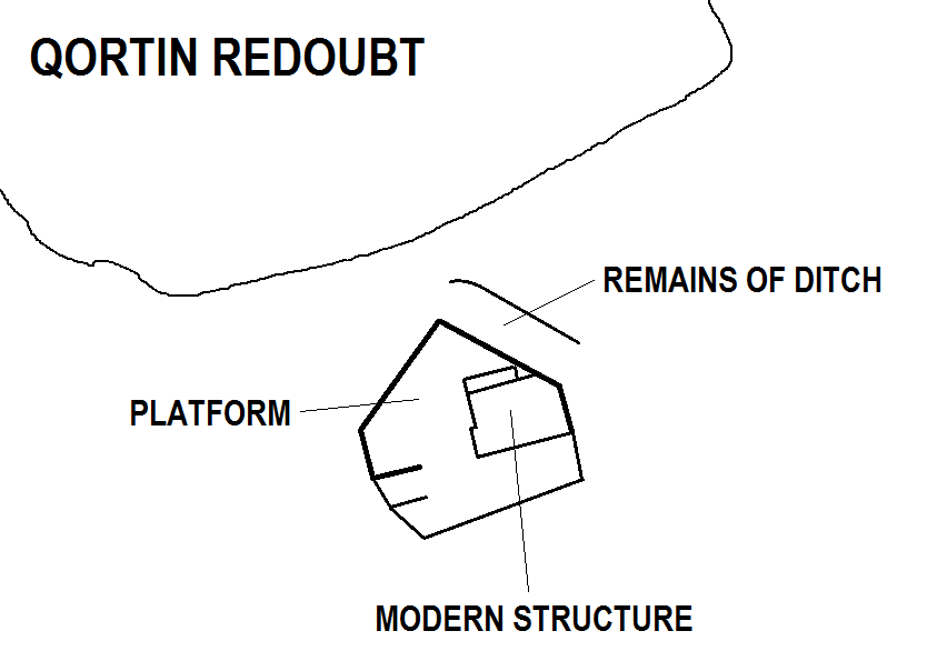 Map of the heavily modified Qortin Redoubt in Mellieħa, Malta.